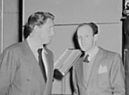 Spencer Tracy, narrator and Garson Kanin, director, at the Long Island Studios of the Army Signal Corps for the recording of Spencer Tracy's narration of the "Ring of Steel," an Office of Emergency Management (OEM), film on on February 19th, 1942. In this cropped version, Philip Martin, Jr. is not in the picture.